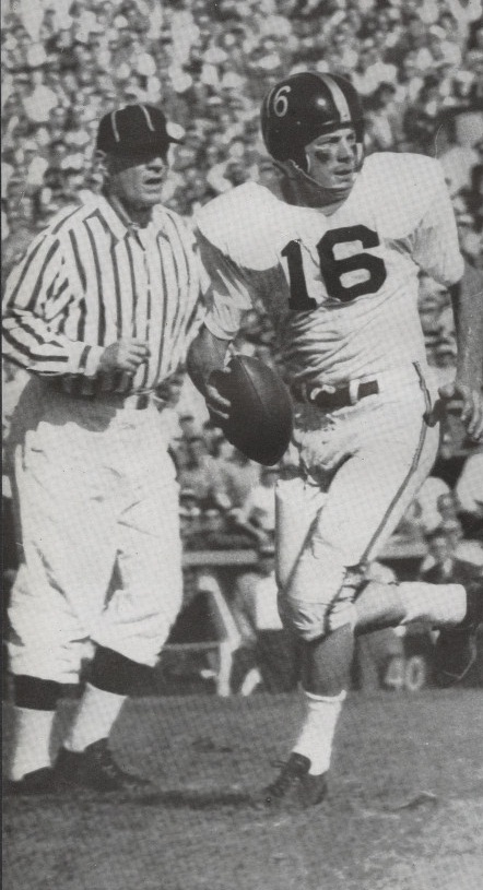 Photograph of Purdue quarterback Len Dawson